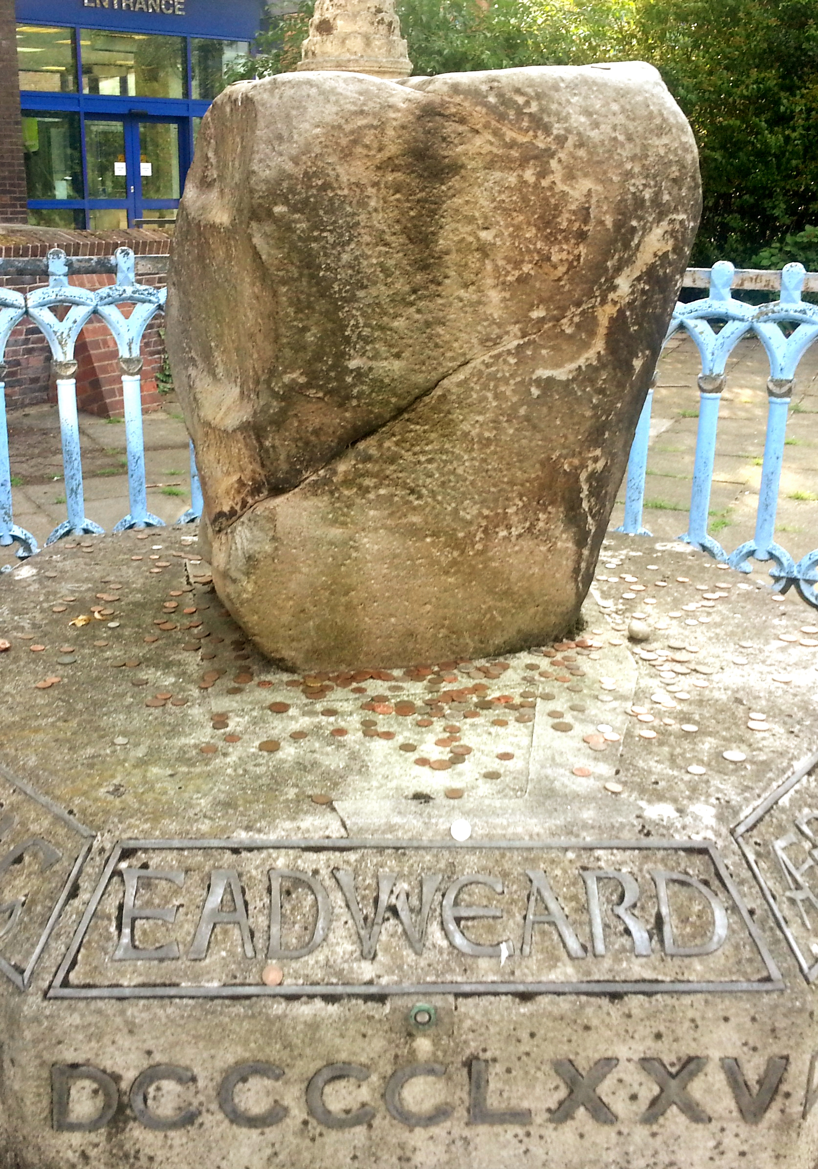 Edward the Martyr on the Coronation Stone